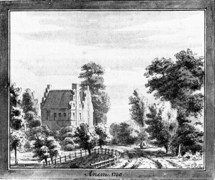 Havezate Ahnem, Olst-Wijhe, Overijssel, The Netherlands